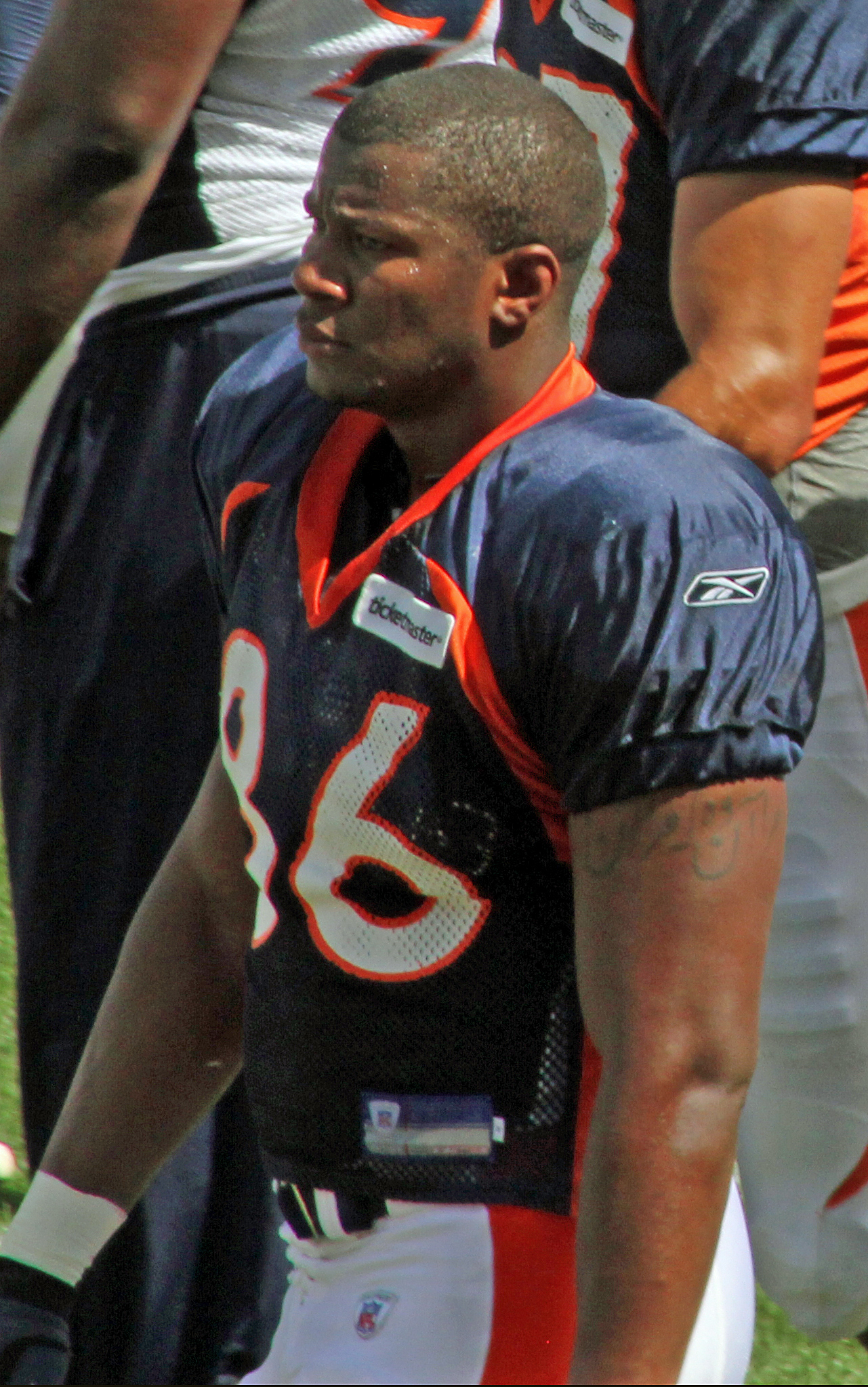 Daniel Fells, a National Football League player.